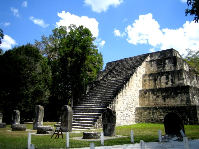 Complex Q in Tikal